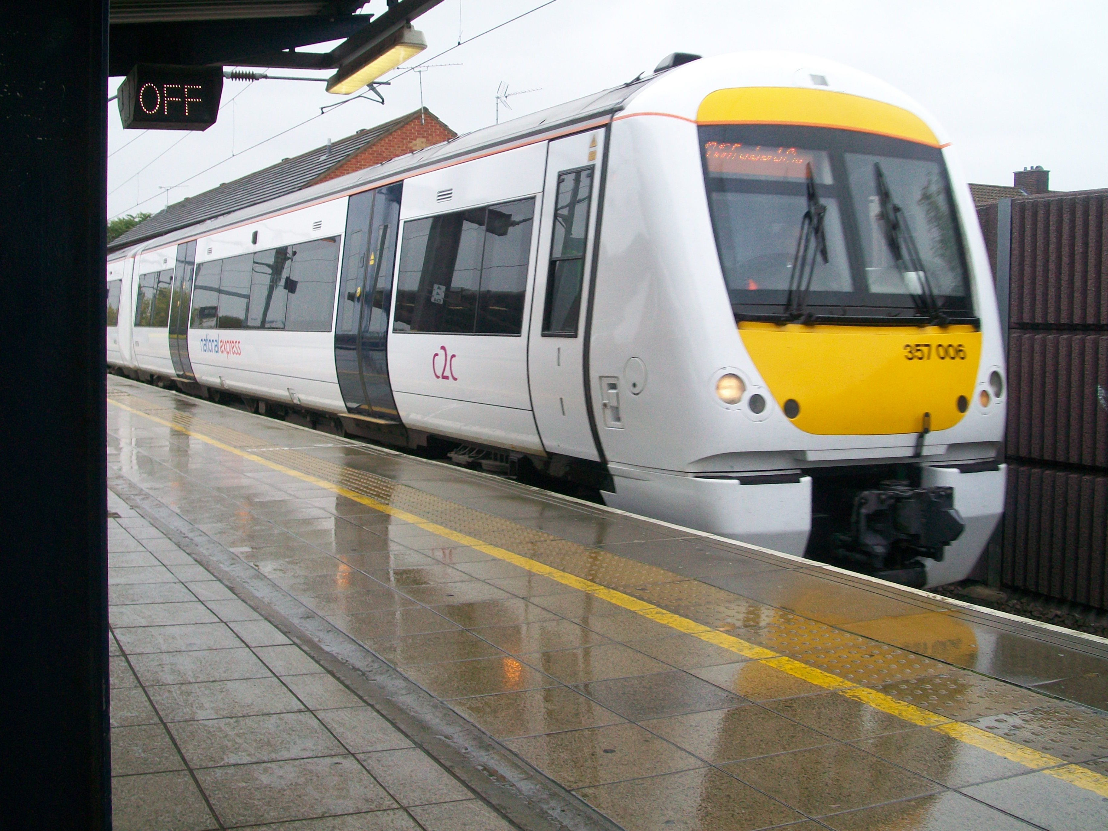 National Express c2c Class 357 at West Ham for London Fenchurch St. Also on my Flickr.